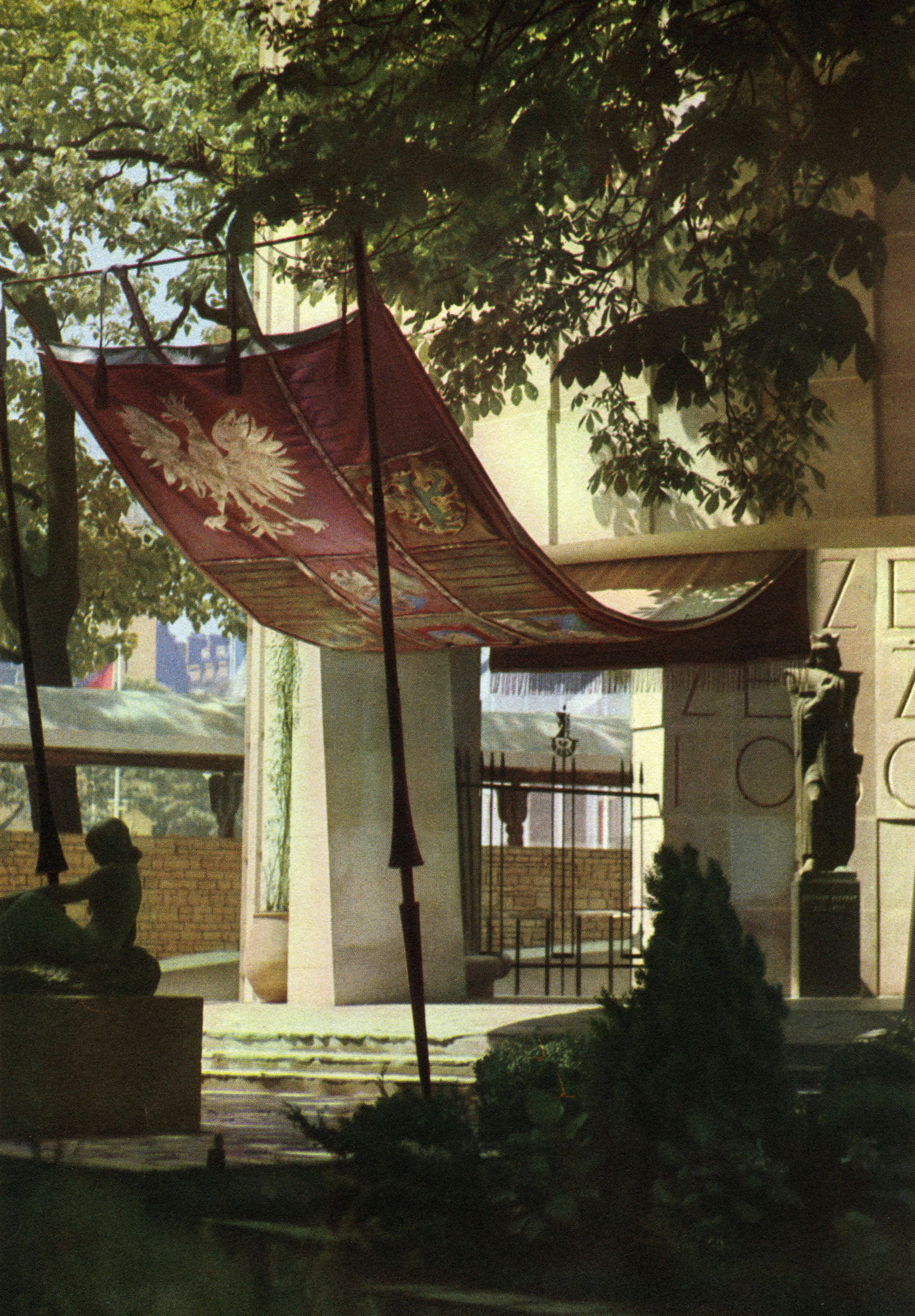 National coat of arms of Poland in Polish pavilion at Expo 1937 in Paris. Exposition Internationale des Arts et Techniques dans la Vie Moderne, Paris. ("PHOTOS GORSKY FRÈRES") See also Polish pavilion in NYC, 1939